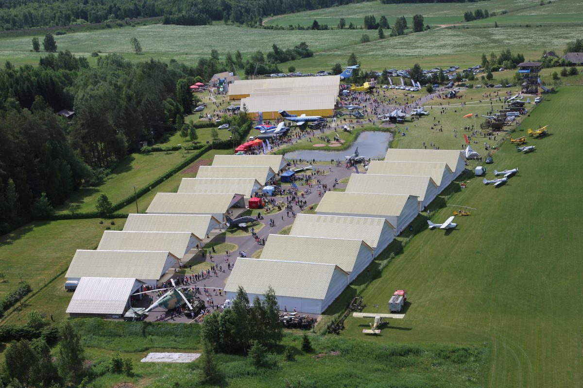 Estonian Aviation Museum during Estonian Aviation Days 2016.